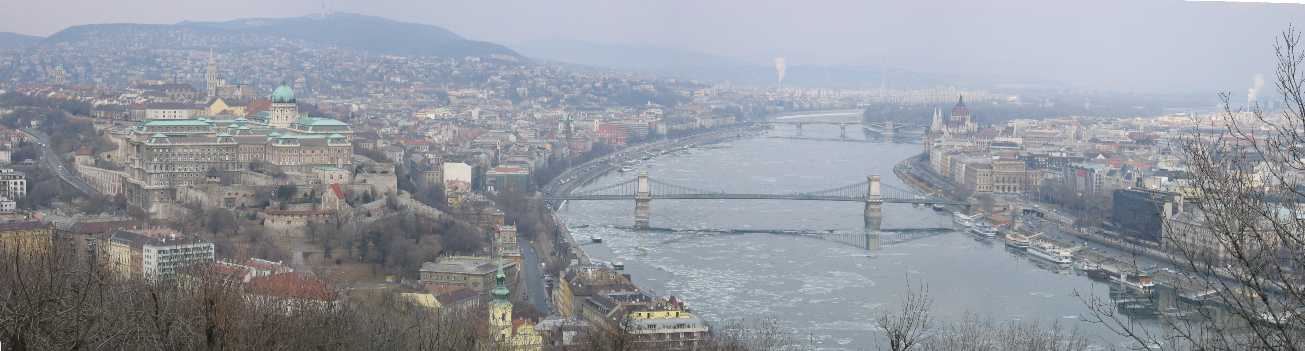 Budapest, Hungary, View from Gellert Hill Towards North, Panorama